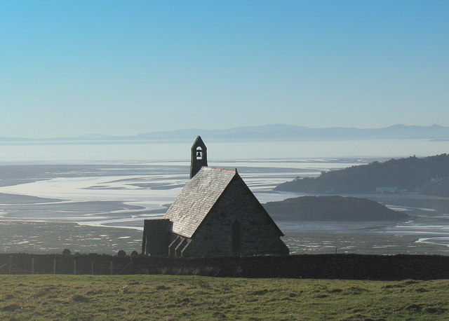 Llandecwyn Church Portmeirion on the right.